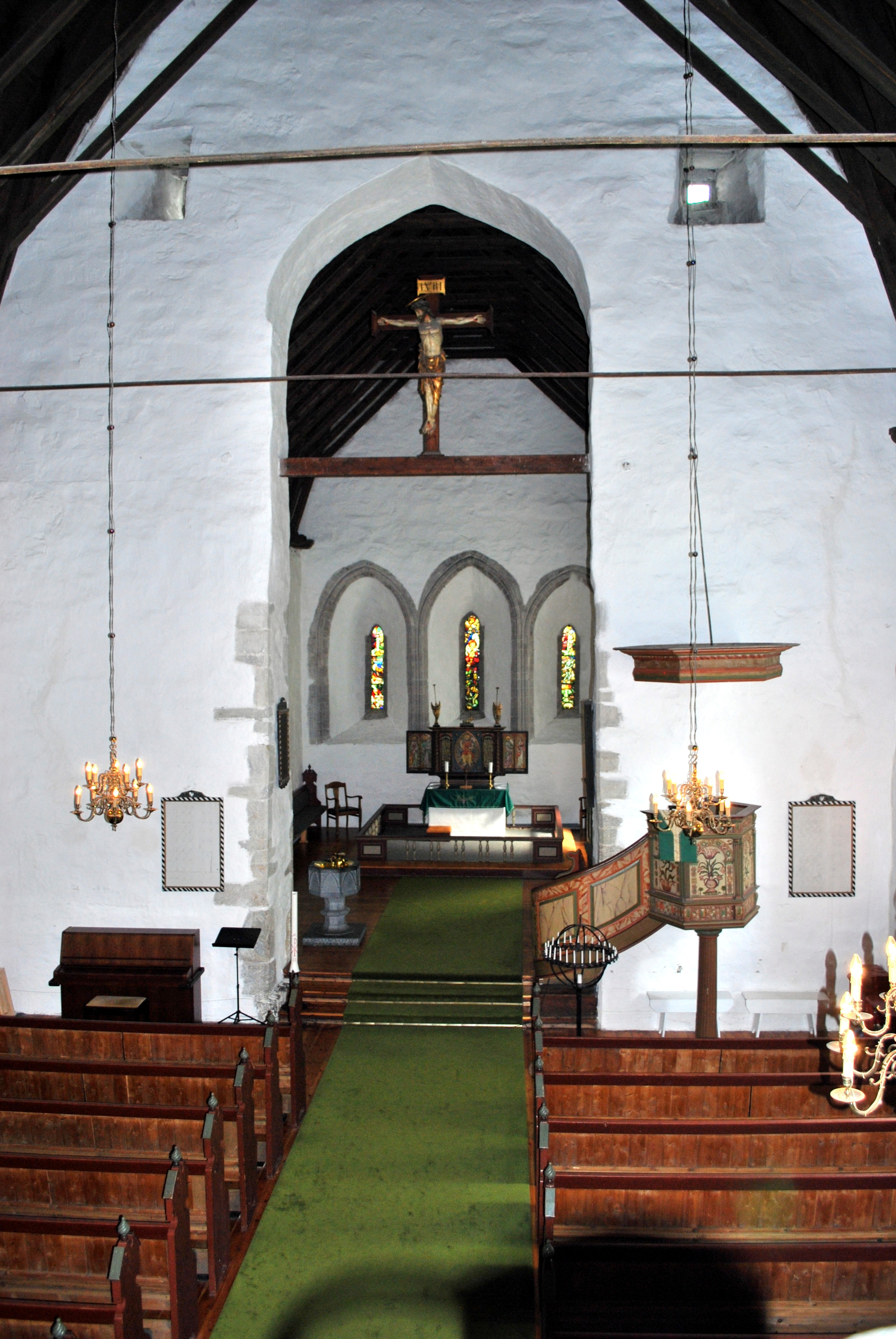 Vangen church, Aurland, Norway, interior, July 2009.